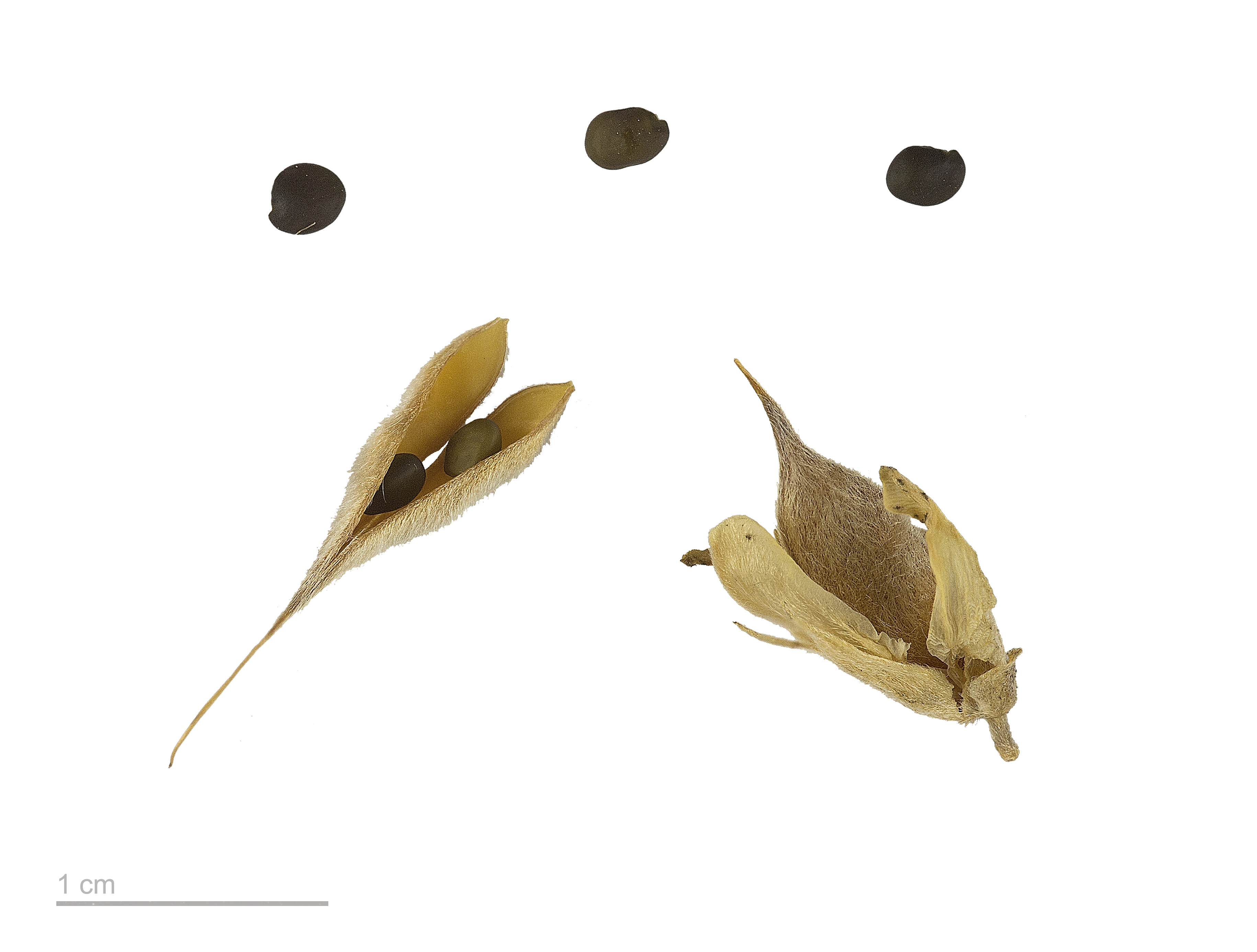 Echinospartum horridum , fruits and seeds